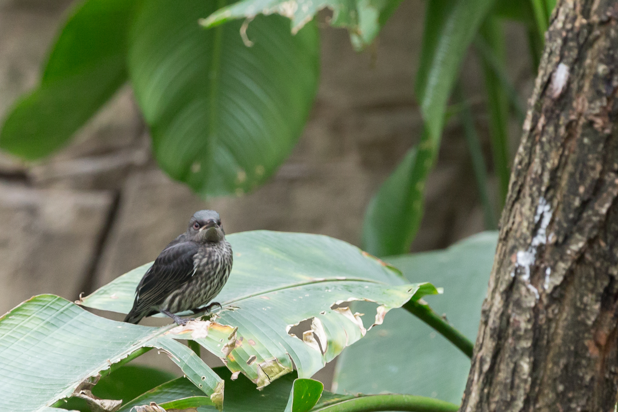 Aplonis panayensis (Asian Glossy Starling) immature in the ZooParc de Beauval in Saint-Aignan-sur-Cher, France.